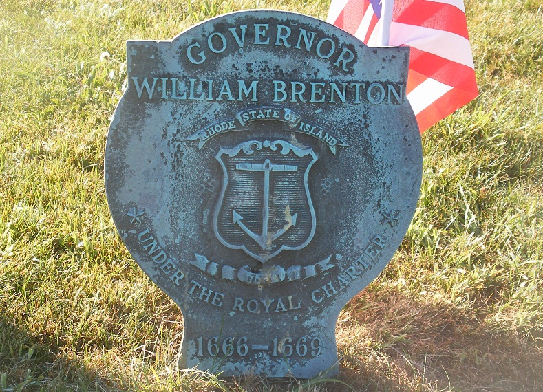 Photo of grave medallion for Rhode Island colonial governor William Brenton at the Fort Adams National Cemetery, Newport, Rhode Island.